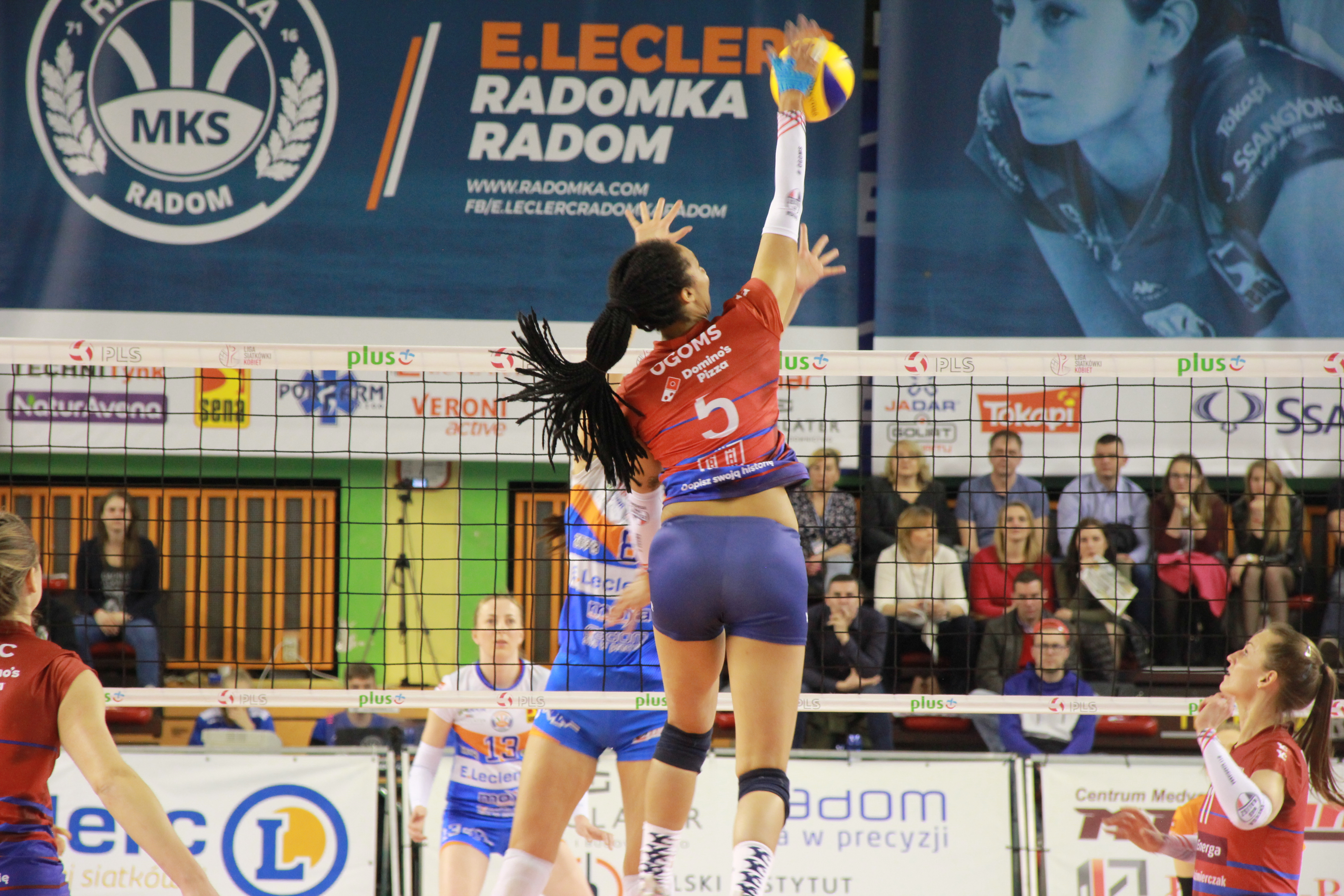 Play-offs versus Radom